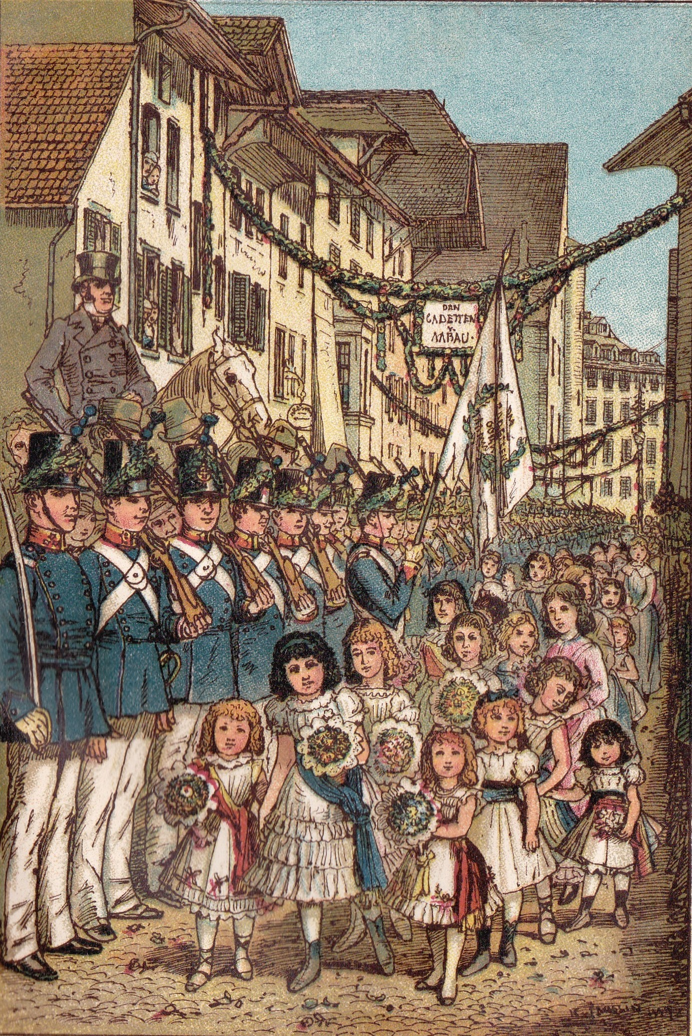 City of Aarau, Switzerland, Cadets at Maienzug Parade 1848